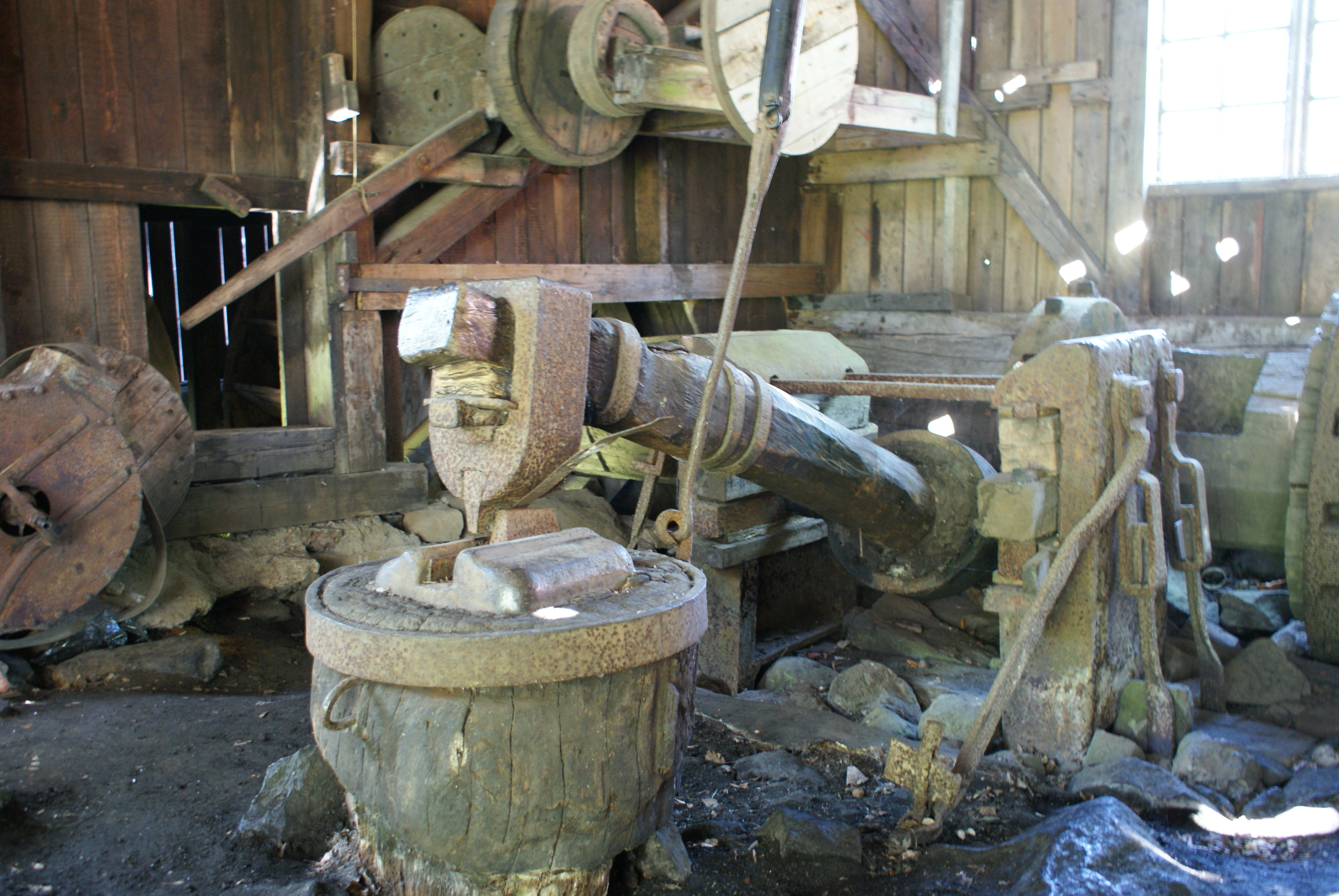 Water powered trip hammer. Vira bruk, Sweden.